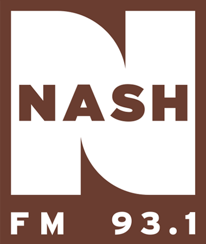 Logo of the radio station 93.1 WDRQ Detroit, Michigan.